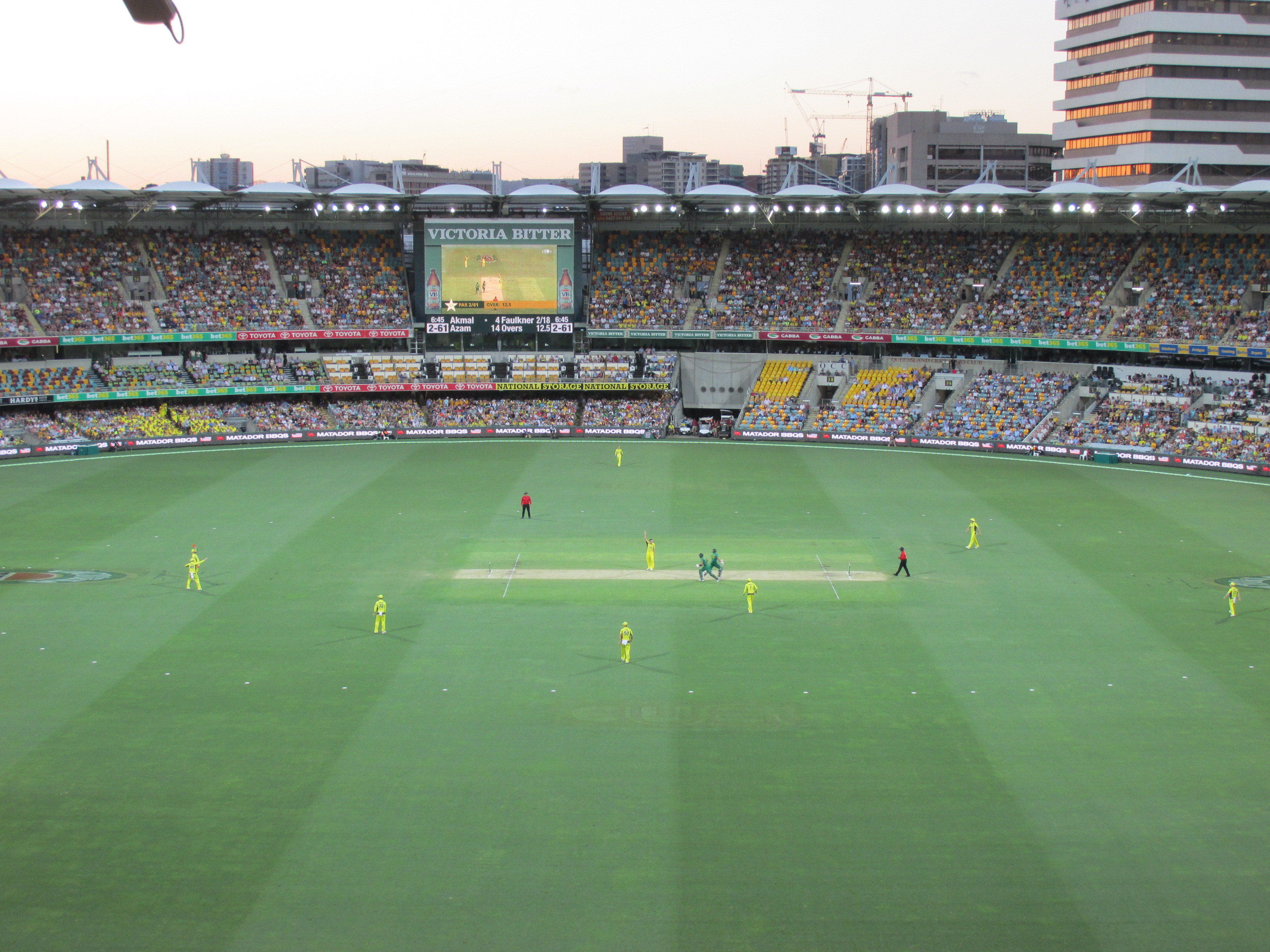 Australia vs Pakistan at the Brisbane Cricket Ground ('The Gabba'), 13 January 2017.